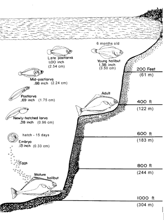 Pacific Halibut Growth Cycle